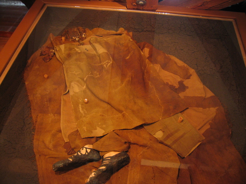 Bog body Obenaltendorf Man at Museum Schwedenspeicher, Stade, Germany